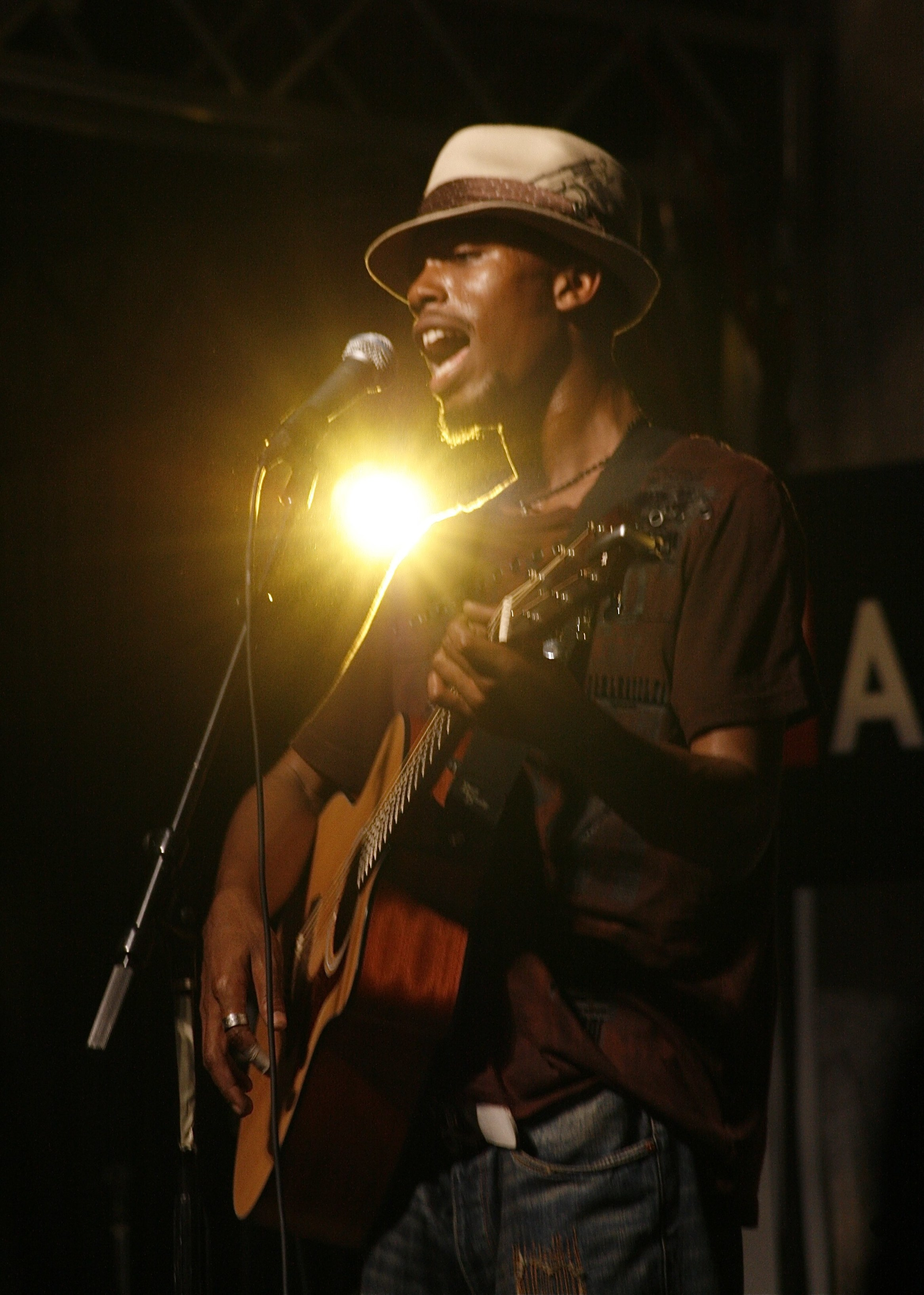 B.o.B performing at South by Southwest on March 18, 2009 in Austin, Texas.